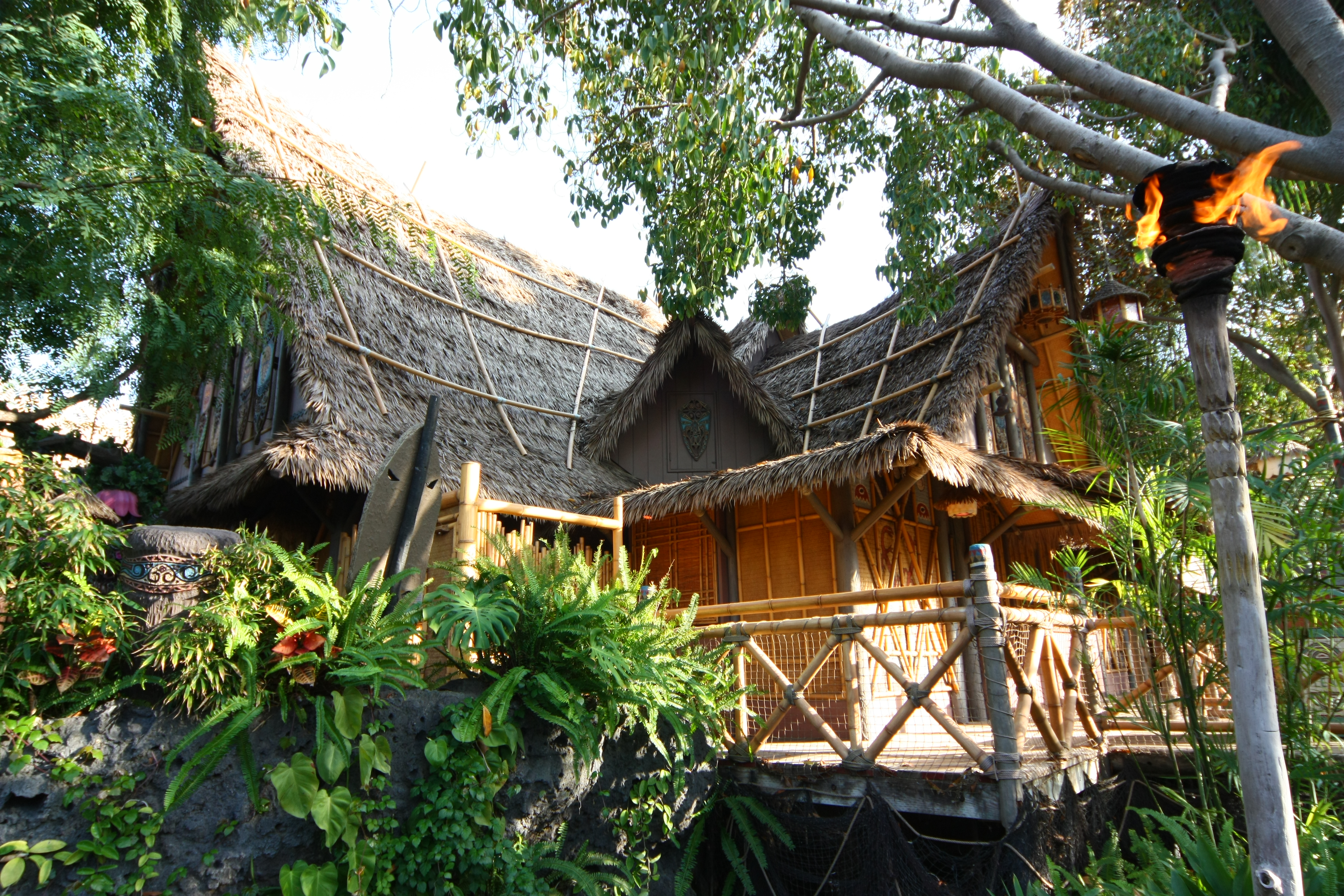 The exterior of Walt Disney's Enchanted Tiki Room at Disneyland Park.